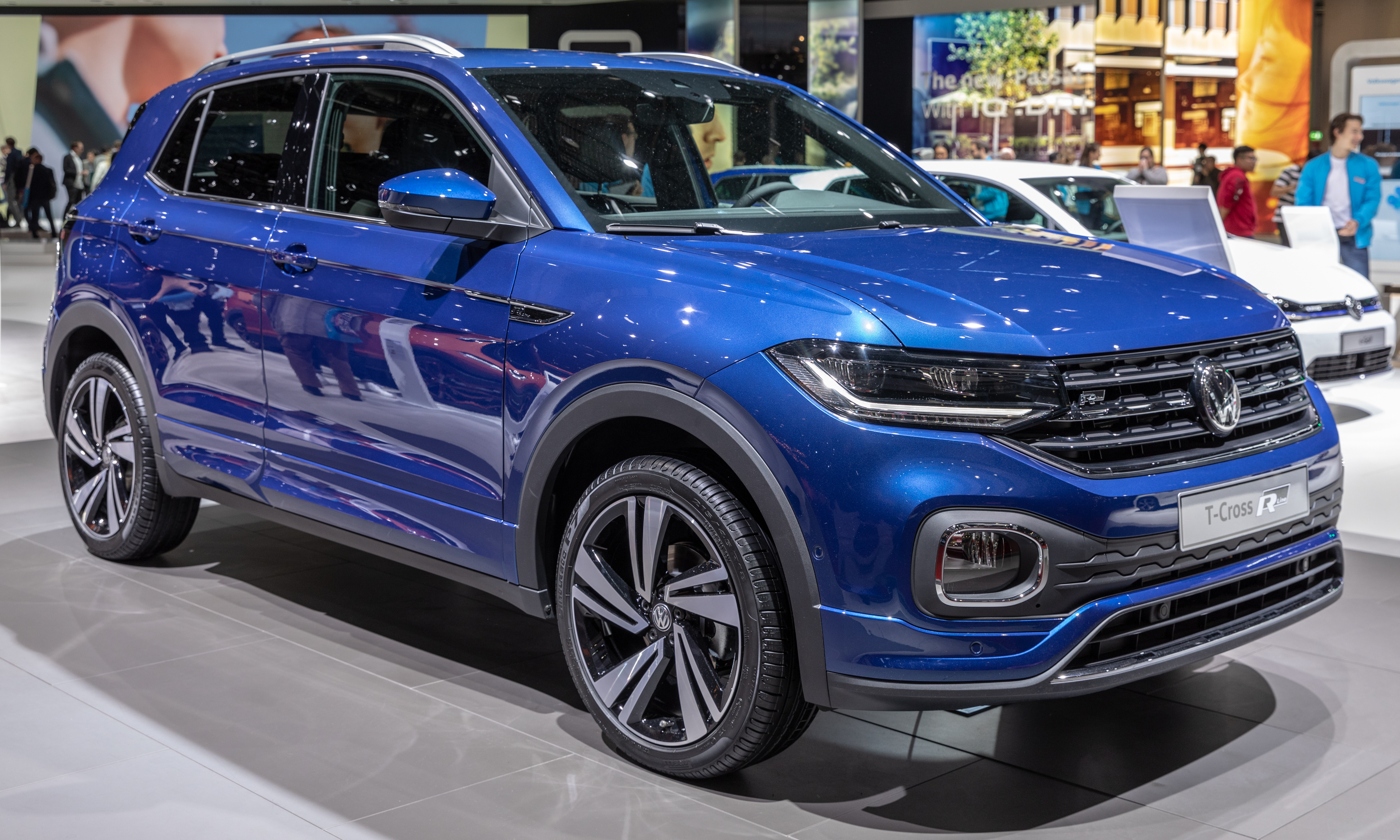 Volkswagen T-Cross R-Line at Geneva International Motor Show 2019, Le Grand-Saconnex